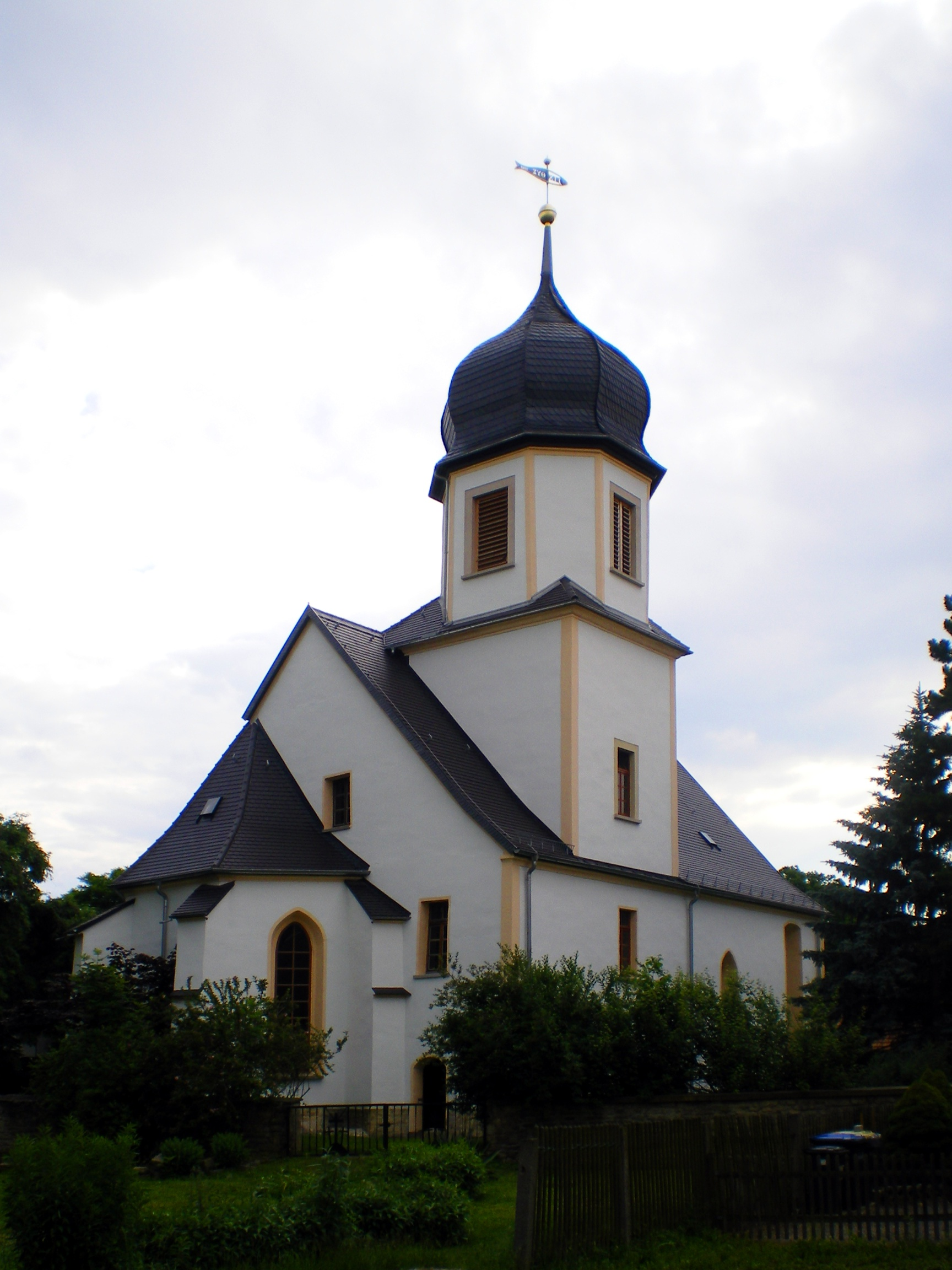 Church in Pölzig near Gera/Thuringia